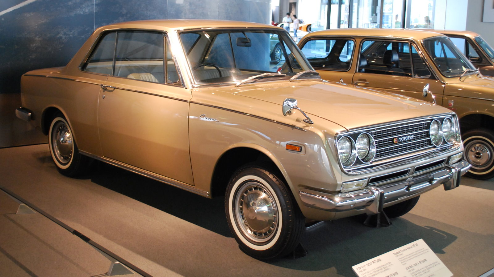 3rd generation Toyopet_Corona Model RT50